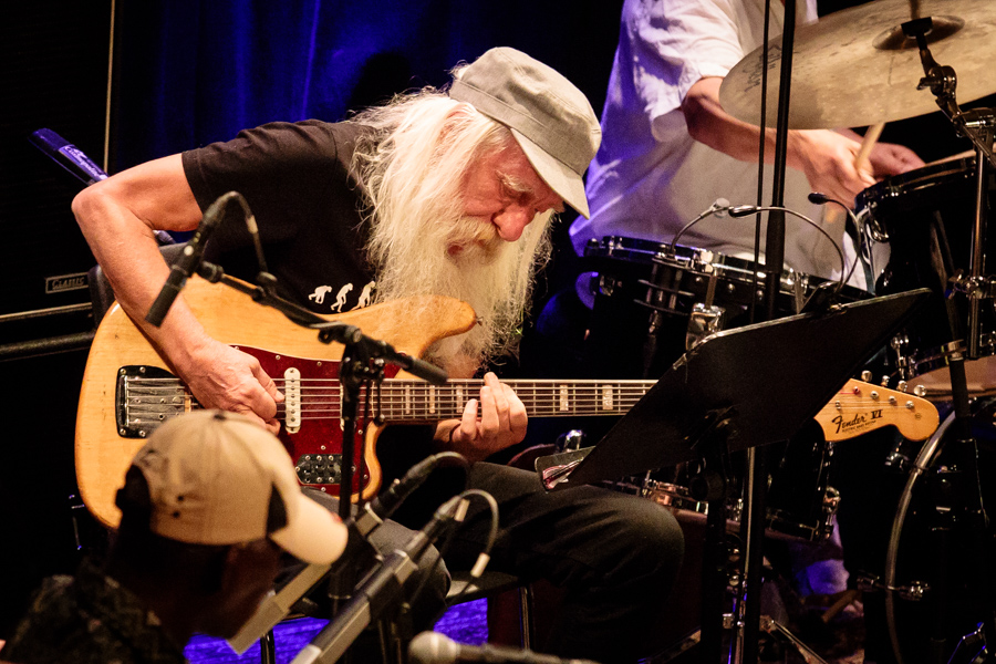 Sveinung Hovensjø with The Organ Club «Club7 revival» at Cosmopolite in Soria Moria. The concert took place on 26. October 2017. Lineup: Little Earl Wilson (vocal), Susanne Fuhr (vocal), Calle Neumann (saxophone), Vidar Johansen (saxophone), Erik Wesseltoft (guitar), Kjell Larsen (guitar), Brynjulf Blix (organ), Miki N`Doye (percussion), Bugge Wesseltoft (organ), Sveinung Hovensjø (bass guitar), Bjørn Jensen (drums) and Charles Mena (drums).